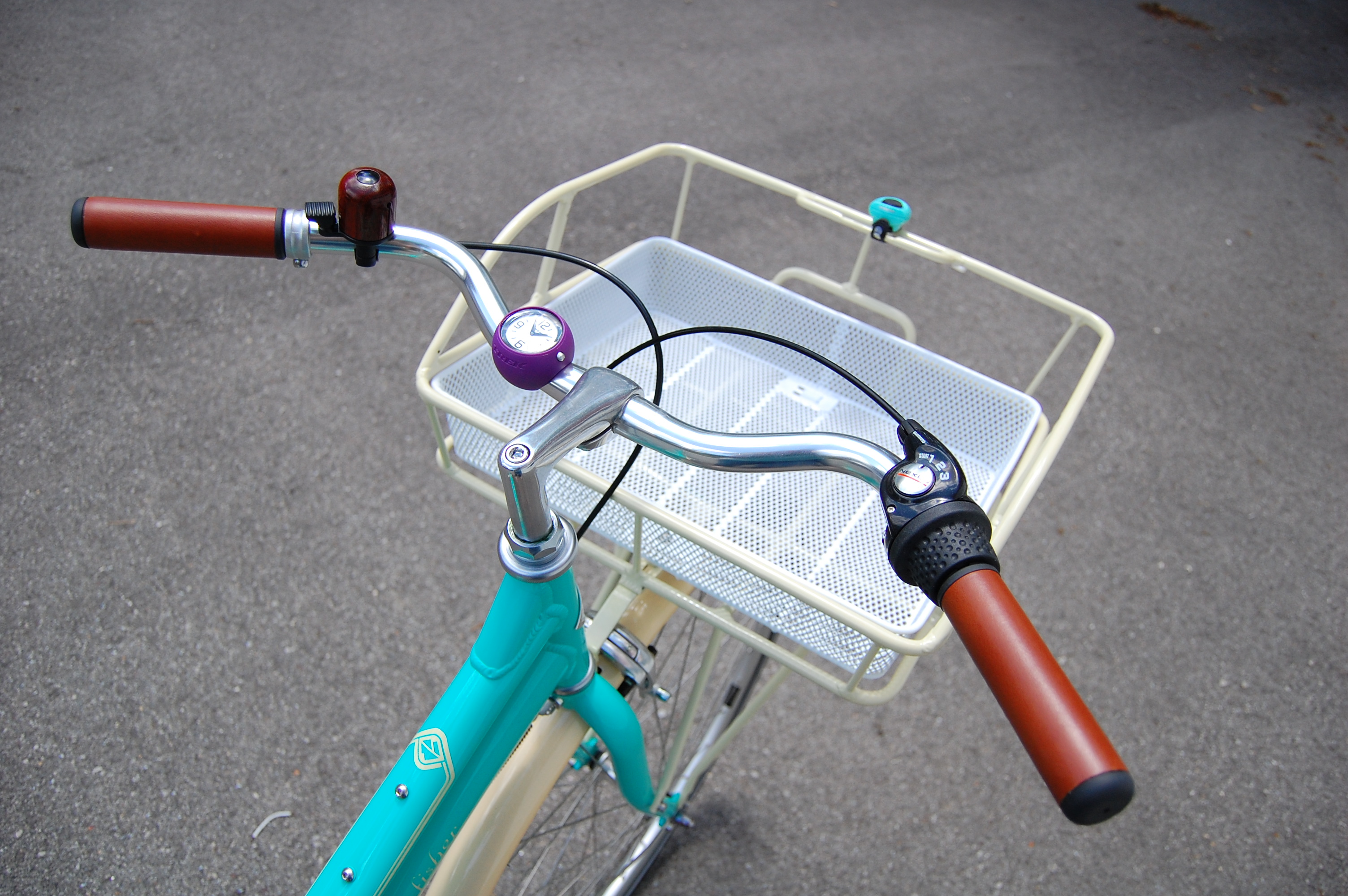 Gary Fisher Simple City 3 handlebars with leather handgrips and front rack